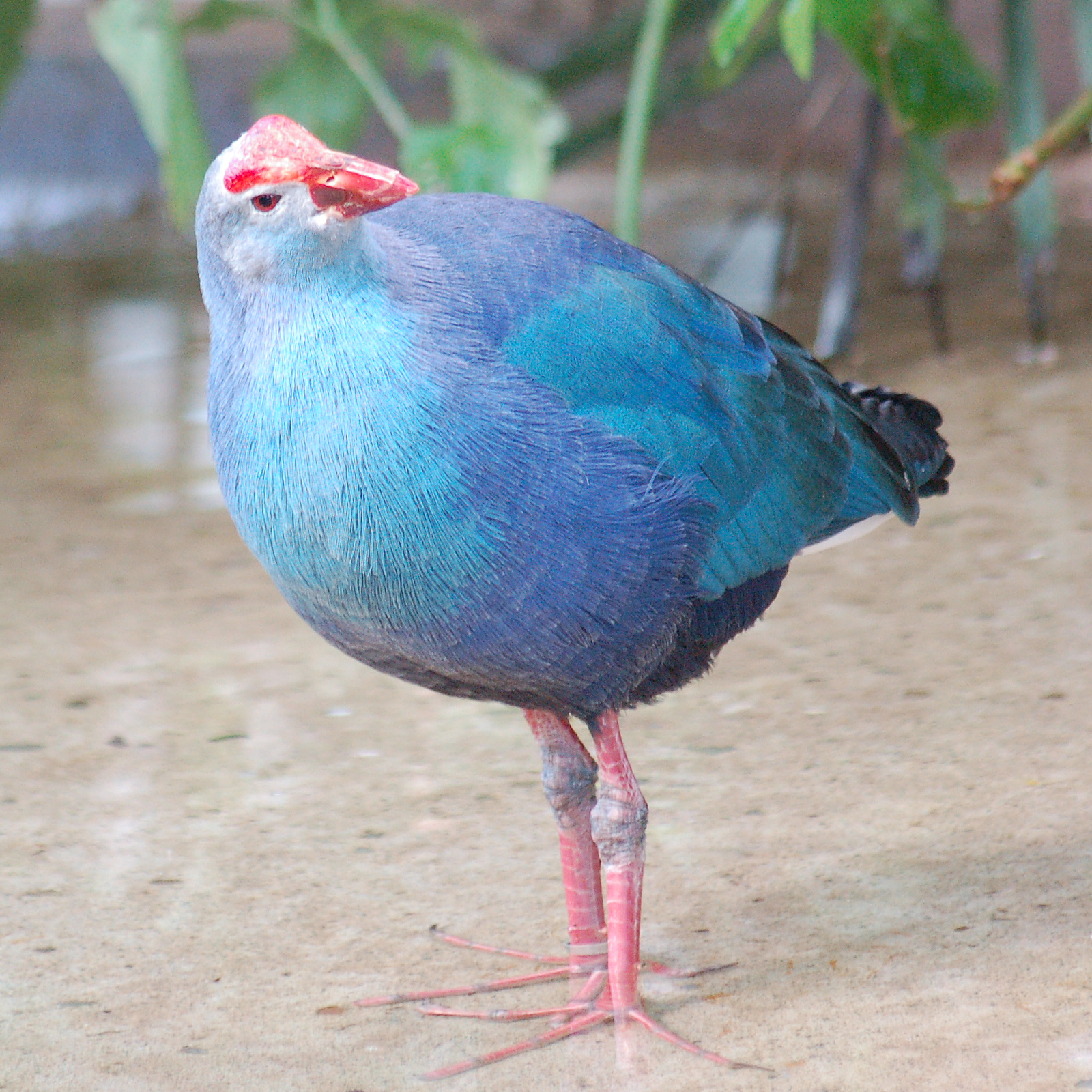 A photograph of Purple Swamphenen (Porphyrio porphyrio en ). Photo taken at the National Aviary, Pittsburgh, Pennsylvania, USA.